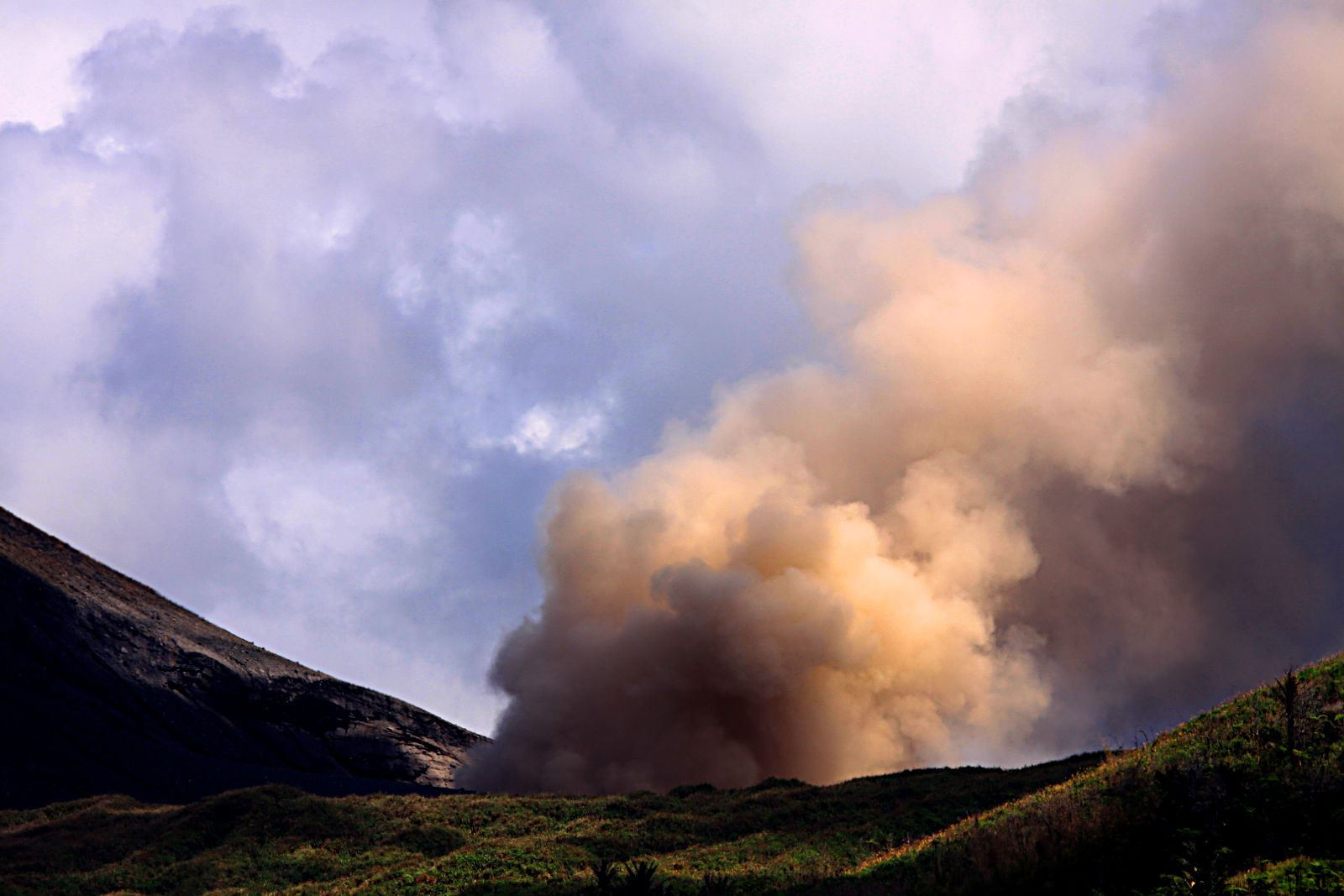 Mount Lokon in northern Sulawesi, Indonesia, erupting